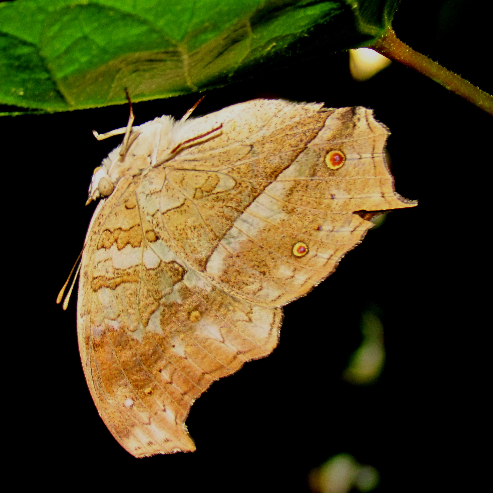 Clouded Mother-of-Pearl (Protogoniomorpha anacardii)